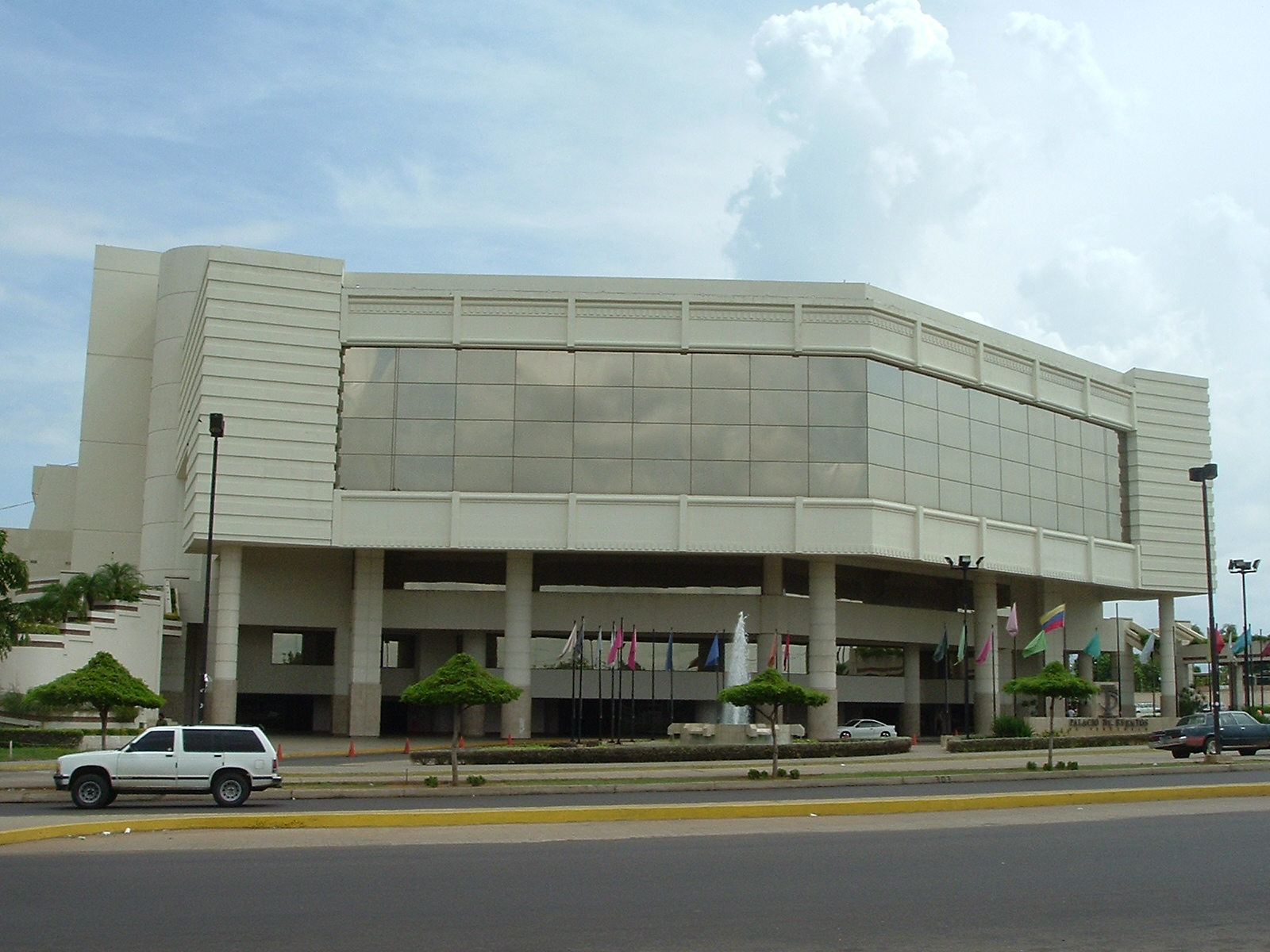 Venezuelan convention center in Maracaibo